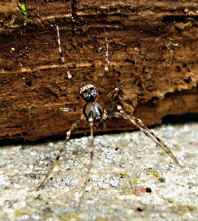 Ero furcata, male.